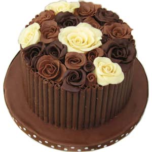 Choc Rose Cake